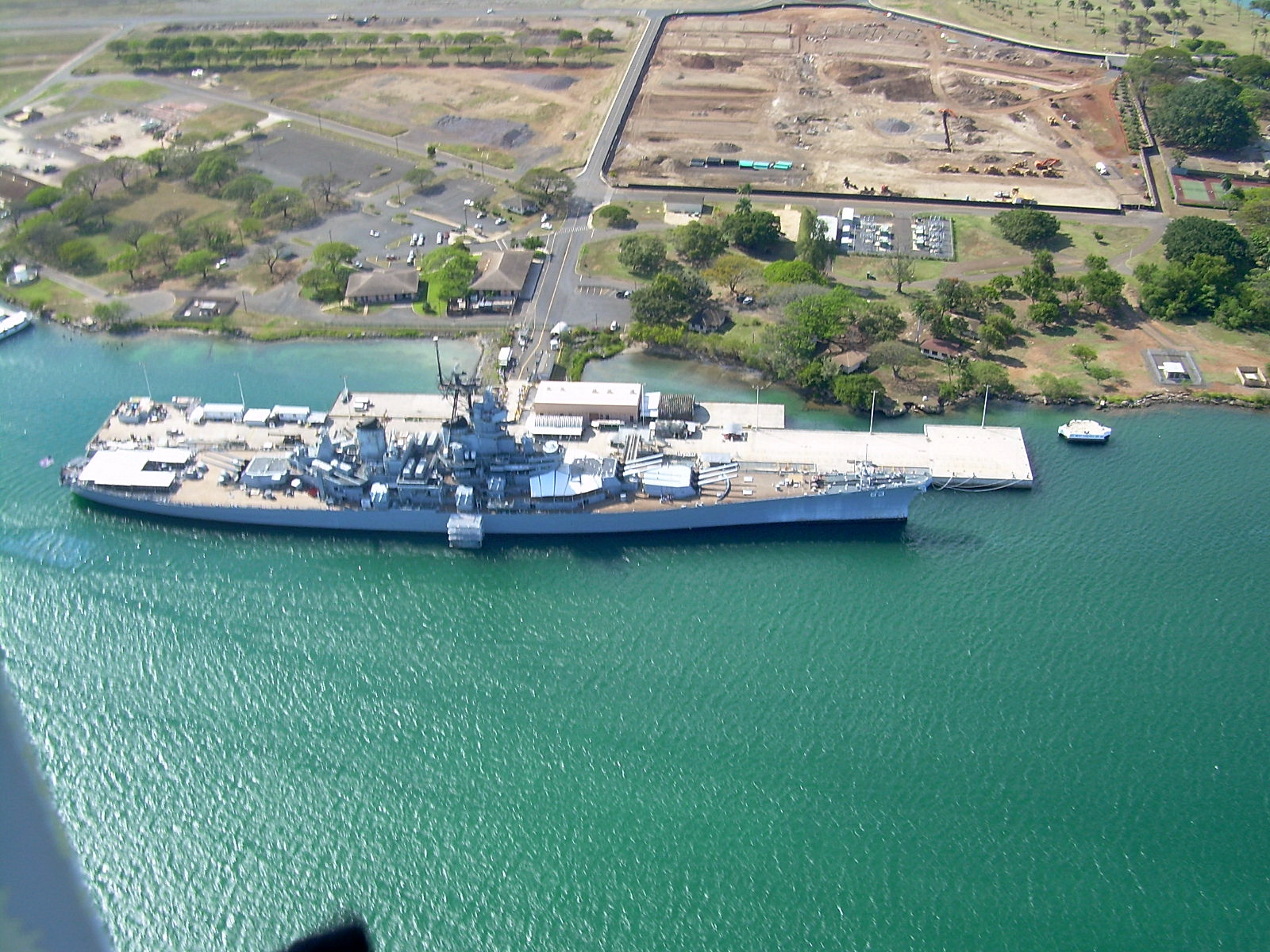 Battleship USS Missouri (BB-63) in Pearl Harbor